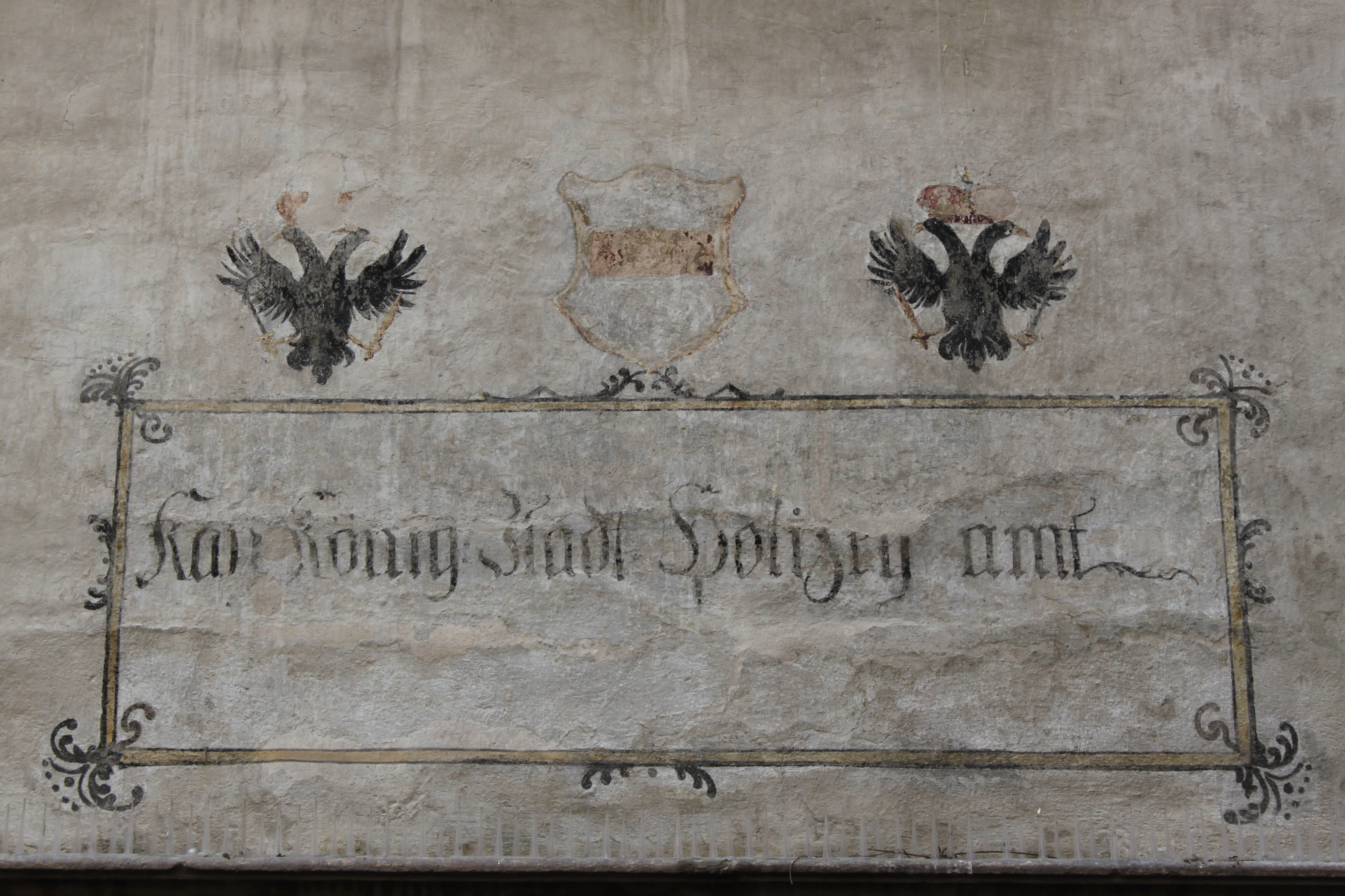 Kaiserlich Königliches Stadt Polizey amt - inscription on the old city hall in Bozen Bolzano South Tyrol